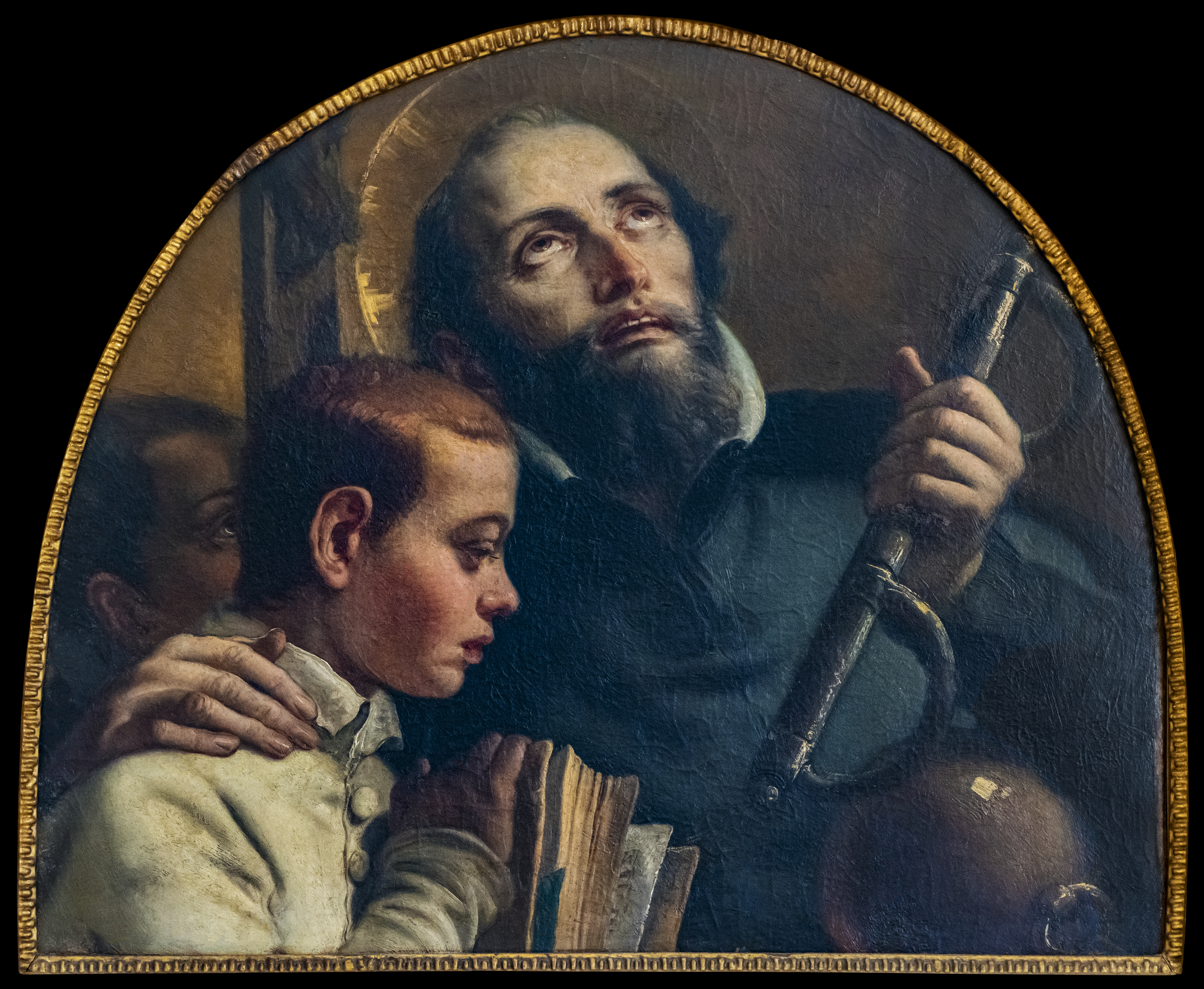 Depicted person: Gerolamo Emiliani – Italian humanitarian